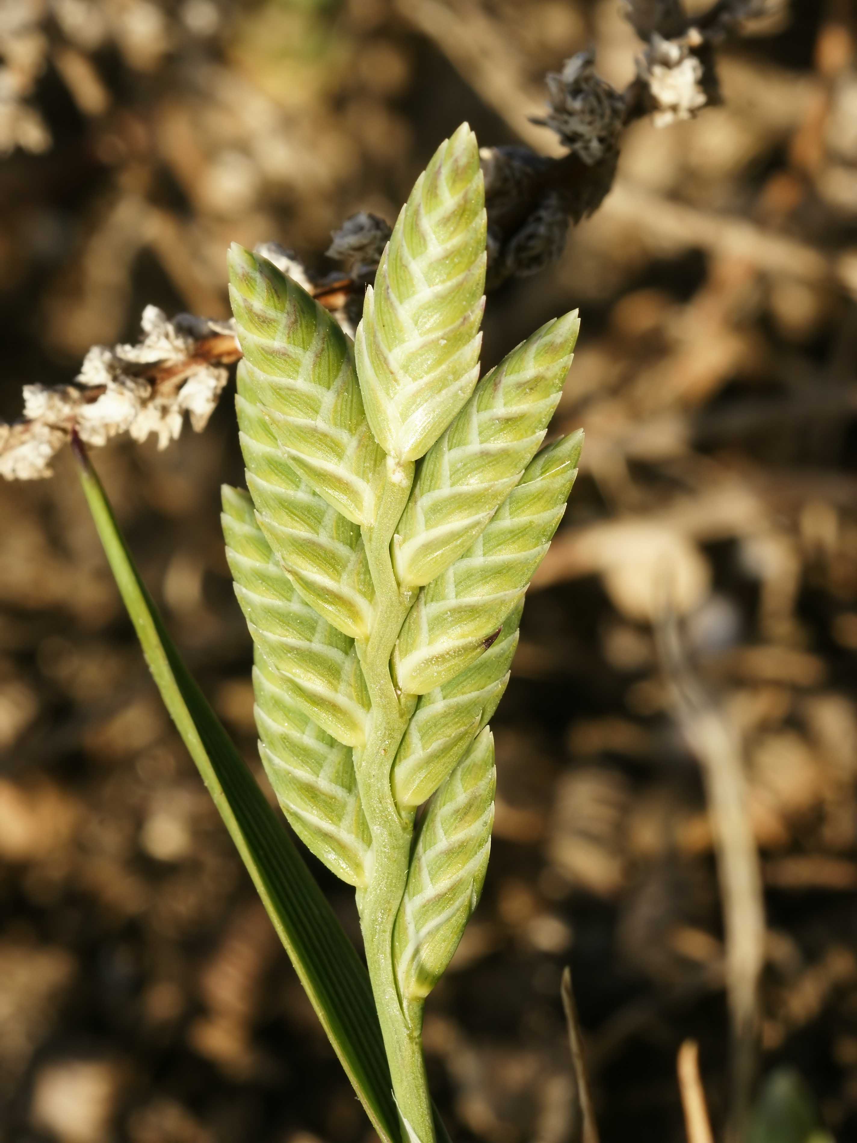 An uncommon grass. Sardinia, Italy